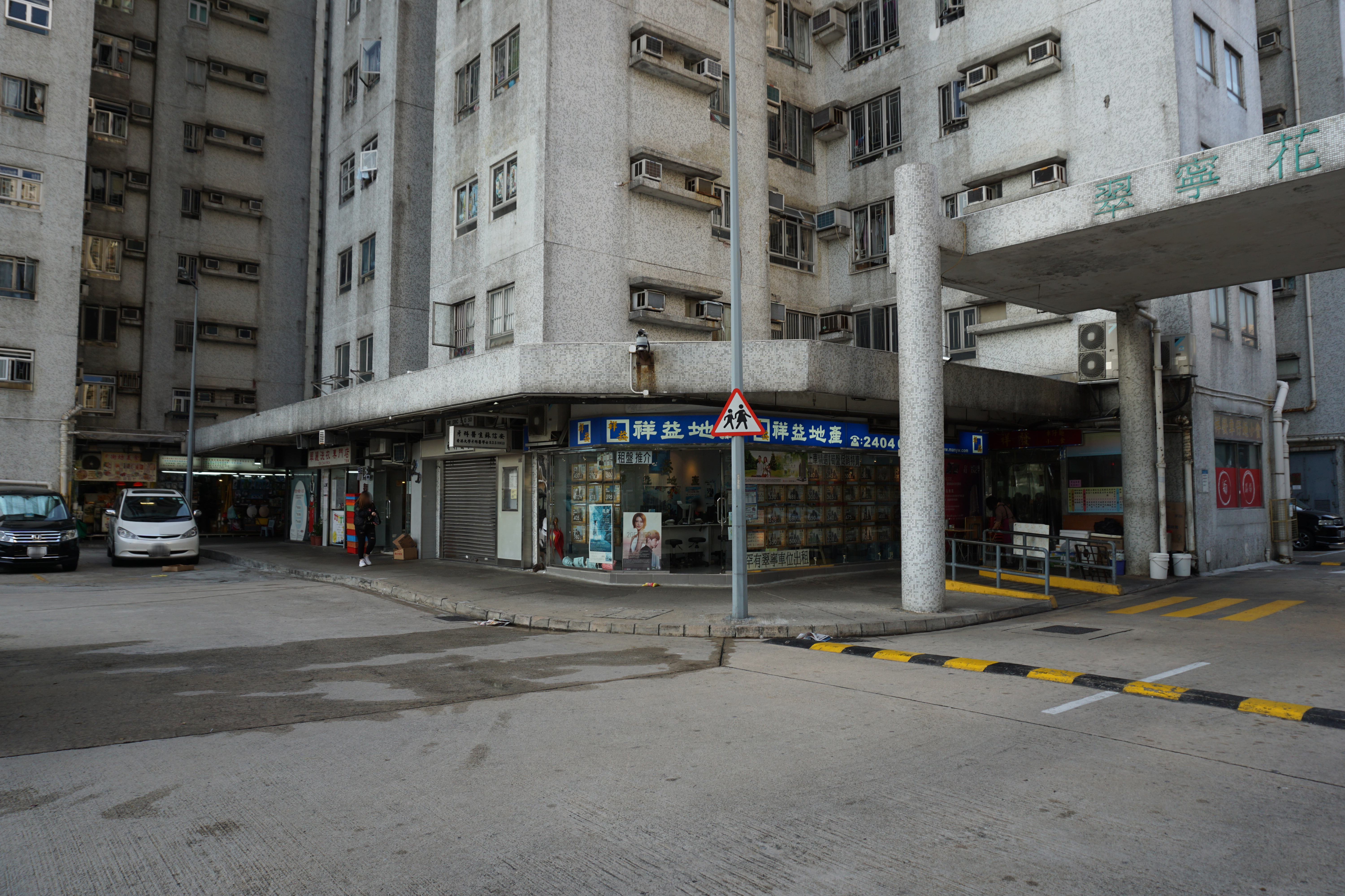 Tsui Ning Garden in Tuen Mun, Hong Kong.